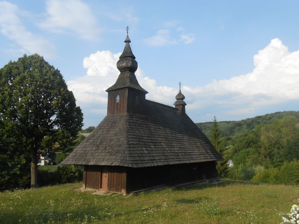 Wooden church of Saint Basil the Great in Hrabova Roztoka